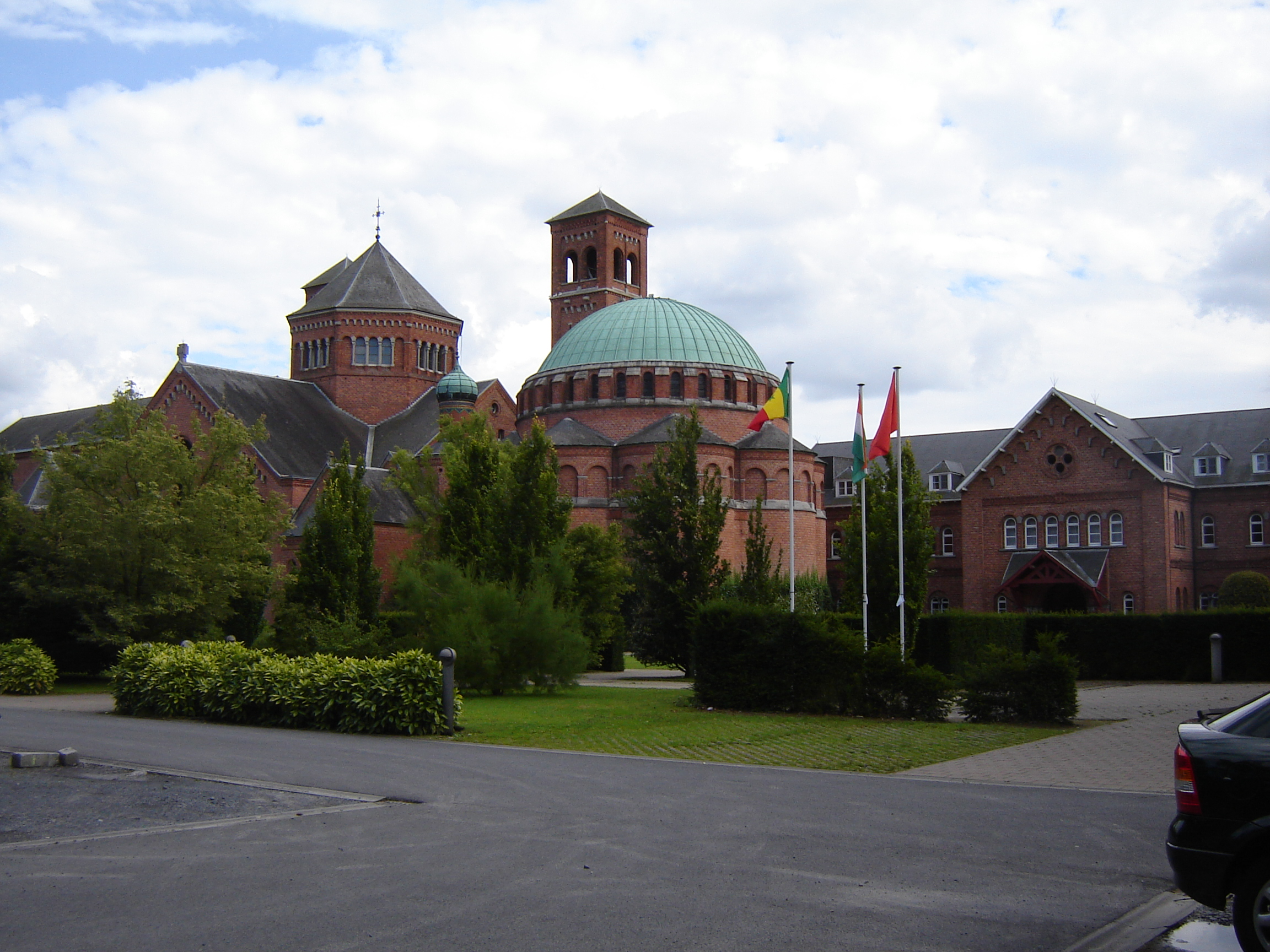 Church of the Sint-Andries abbey Zevenkerken. Sint-Andries, Brugge, West-Flanders, Belgium.